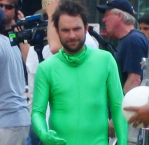 Charlie Day